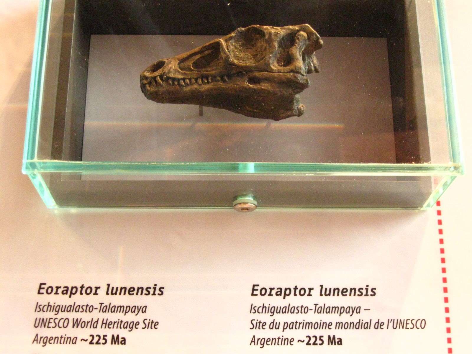 Copy of skull of the early theropod dinosaur Eoraptor lunensis from the Upper Triassic Ischigualasto Formation of Argentina, on display in the Joggins Fossil Center at Joggins Fossil Cliff World Heritage Site. The fossil site from which the genuine skull had been recovered is a World Heritage Site as well. About 90 Million years lie in between the coal swamp forest of Joggins and the rather dry Triassic world of Eoraptor.